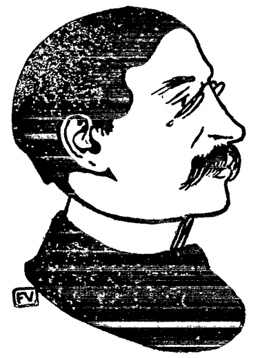 Portrait of French politician Léon Blum (1872-1950) by Félix Valloton (1865-1925)